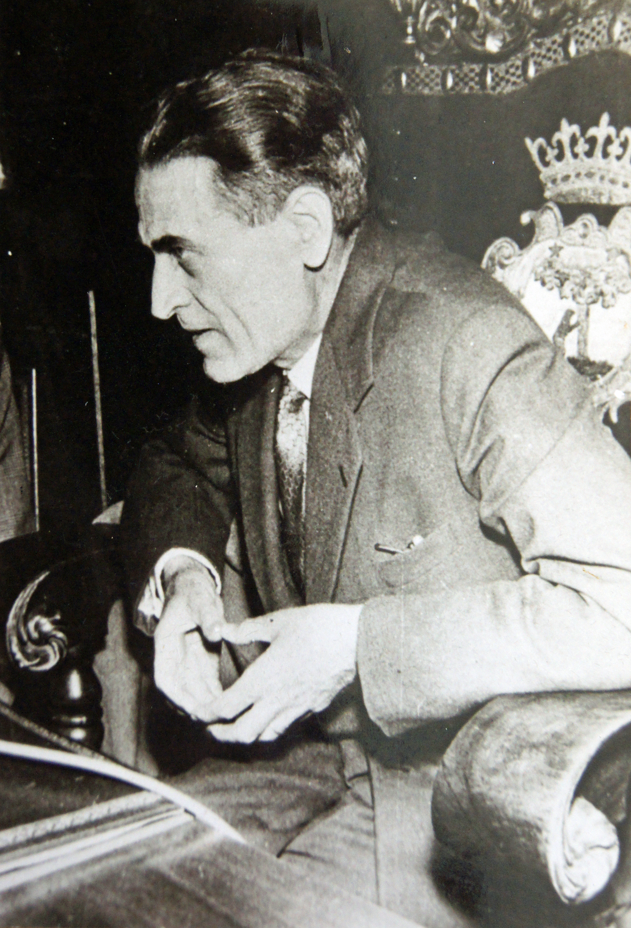 Calonge, Catalonia: Pere Rosselló i Blanch